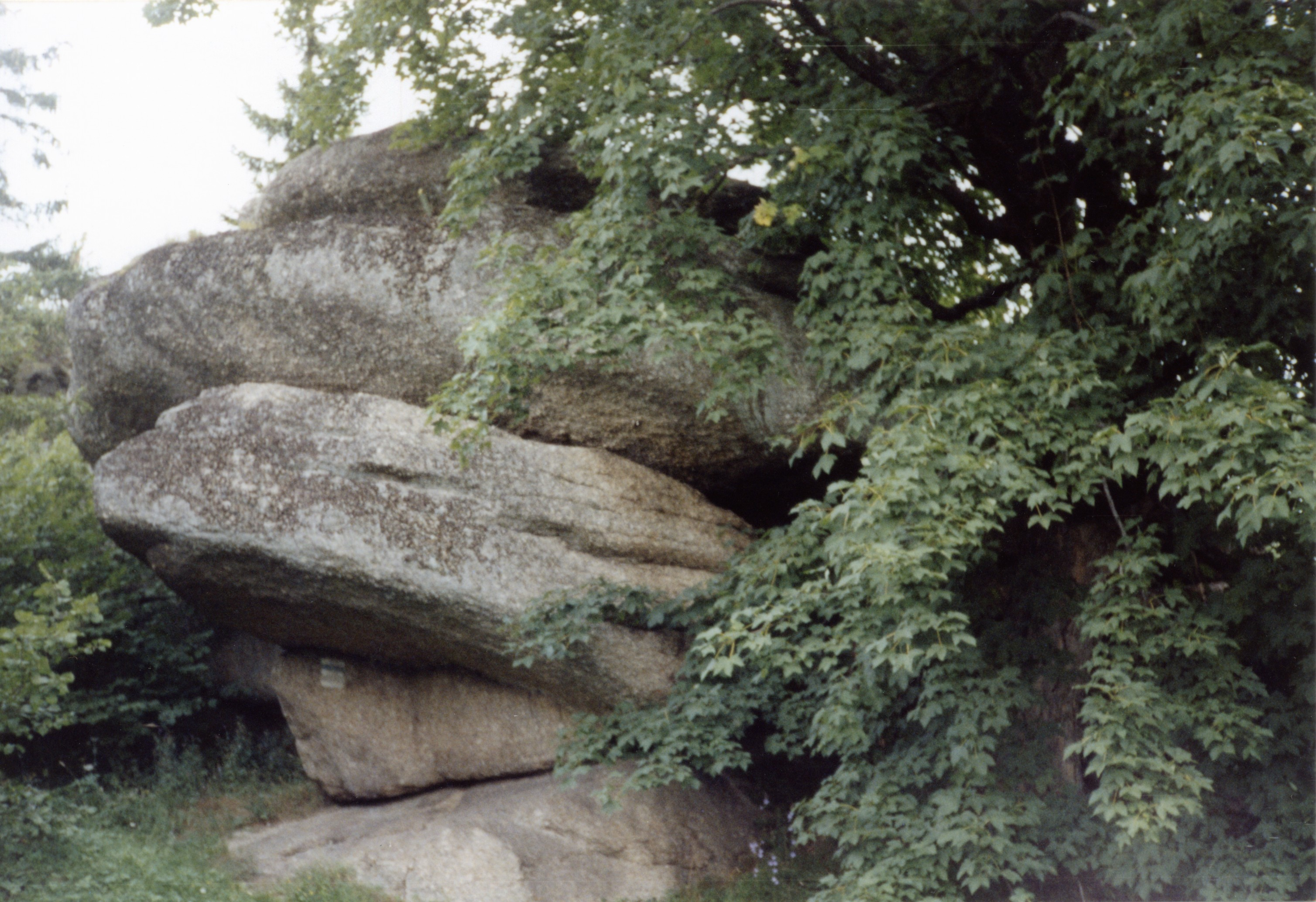 Natural monument ZT-133 Felsbildungen near Wielands (Guttenberg), district Zwettl, Lower Austria